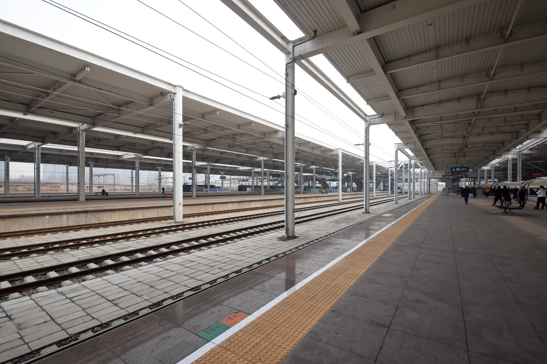 Tianjin-Qinhuangdao High-Speed Railway Platforms of Qinhuangdao Railway Station